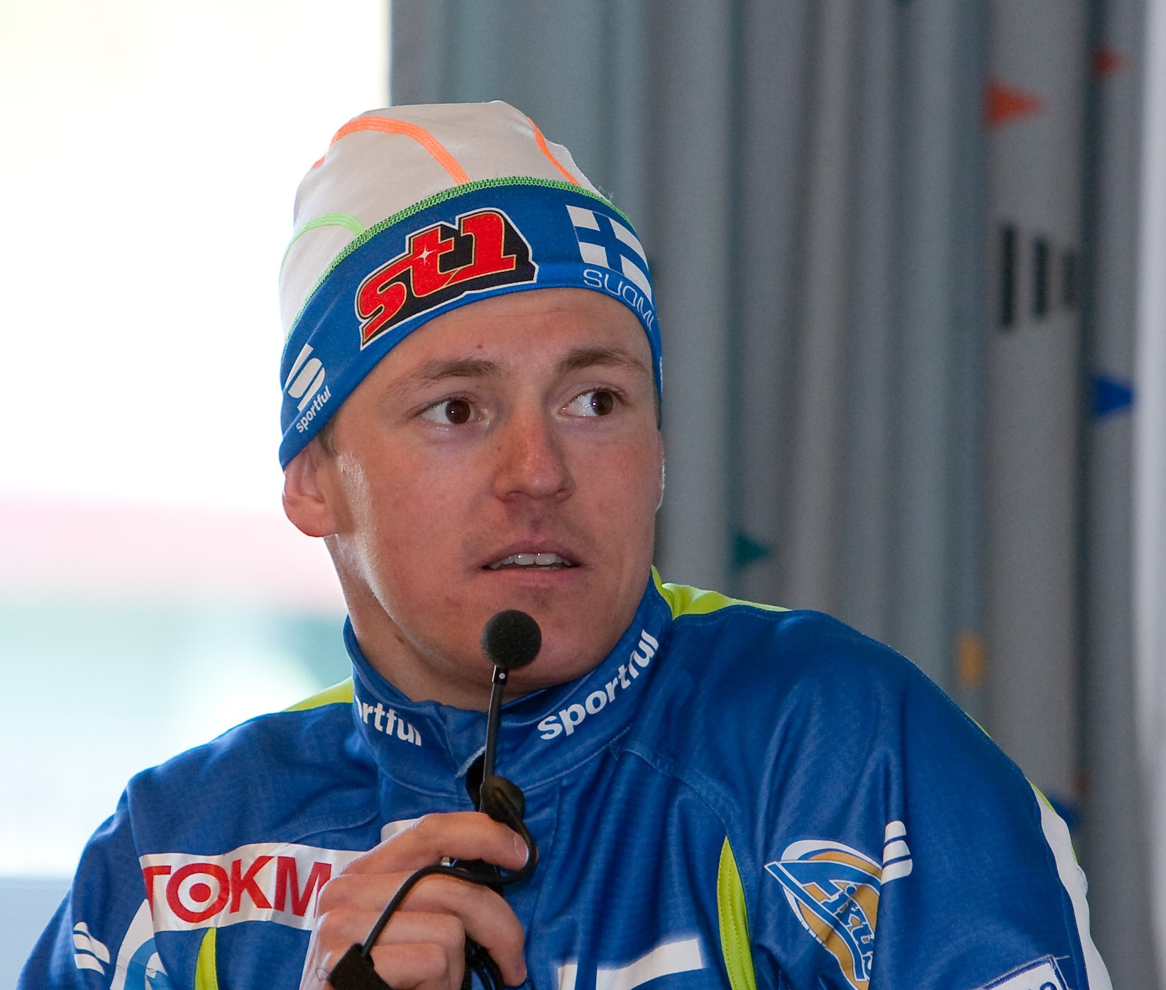 Sami Jauhojärvi at the press conference after the FIS World cup Cross country skiing 50 km men 14 March 2009 in Trondheim, Norway. Sami won the race.